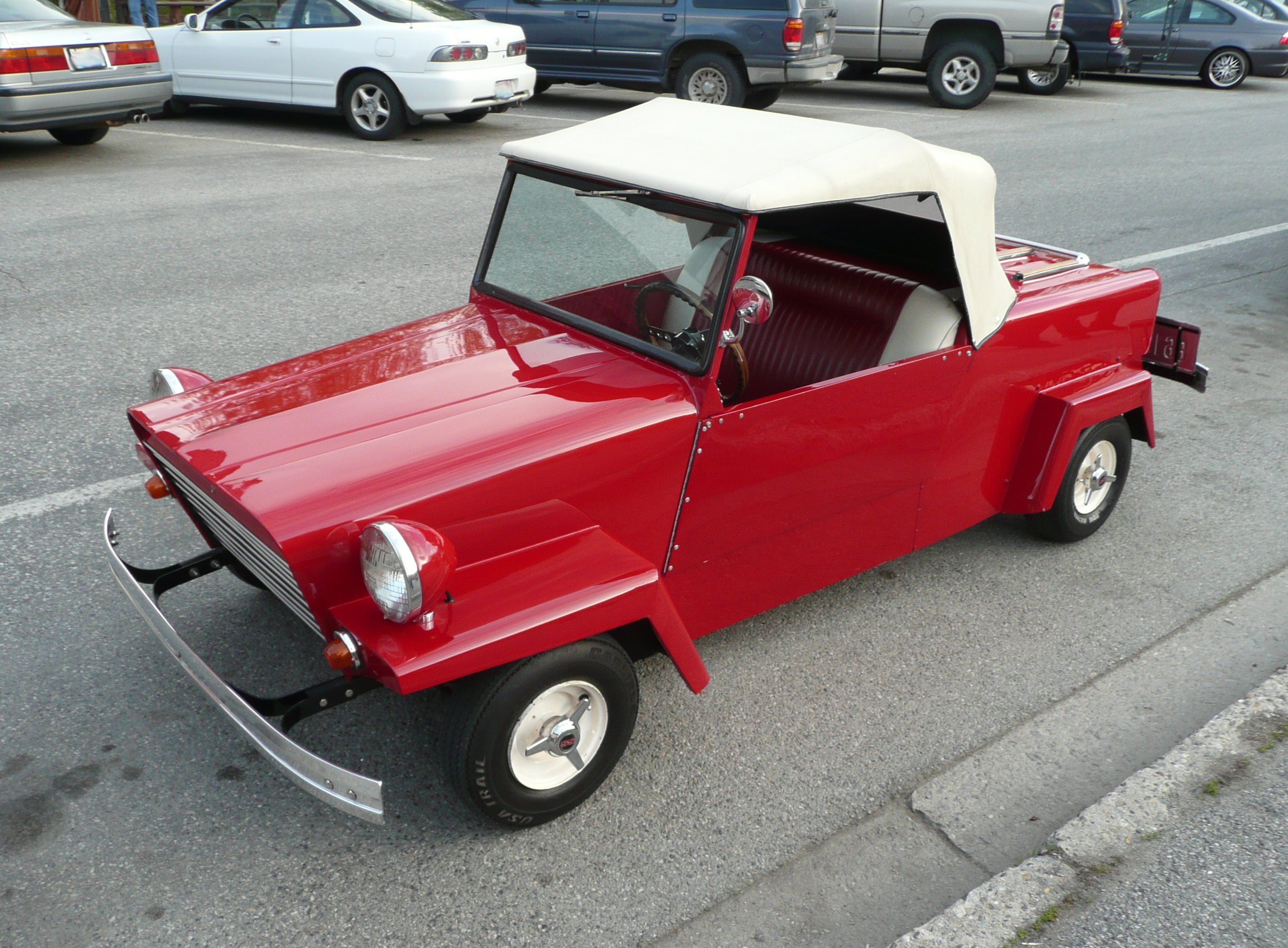 Freestone King Midget microcar parked in Leavenworth, WA.